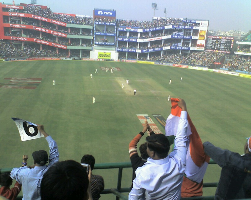 Stadium End of DDCA Ground